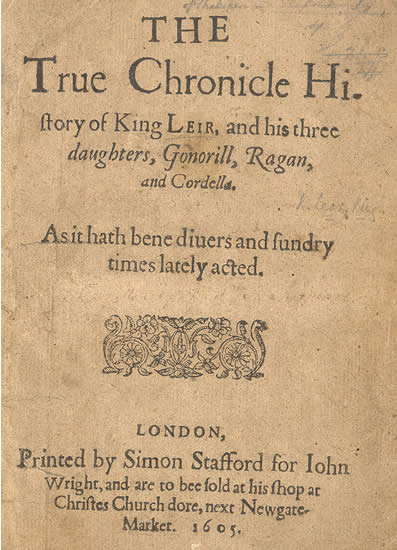 Title page of the 1605 text of The True Chronicle History of King Leir, an anonymous play which may have been a source for Shakespeare's King Lear'.'